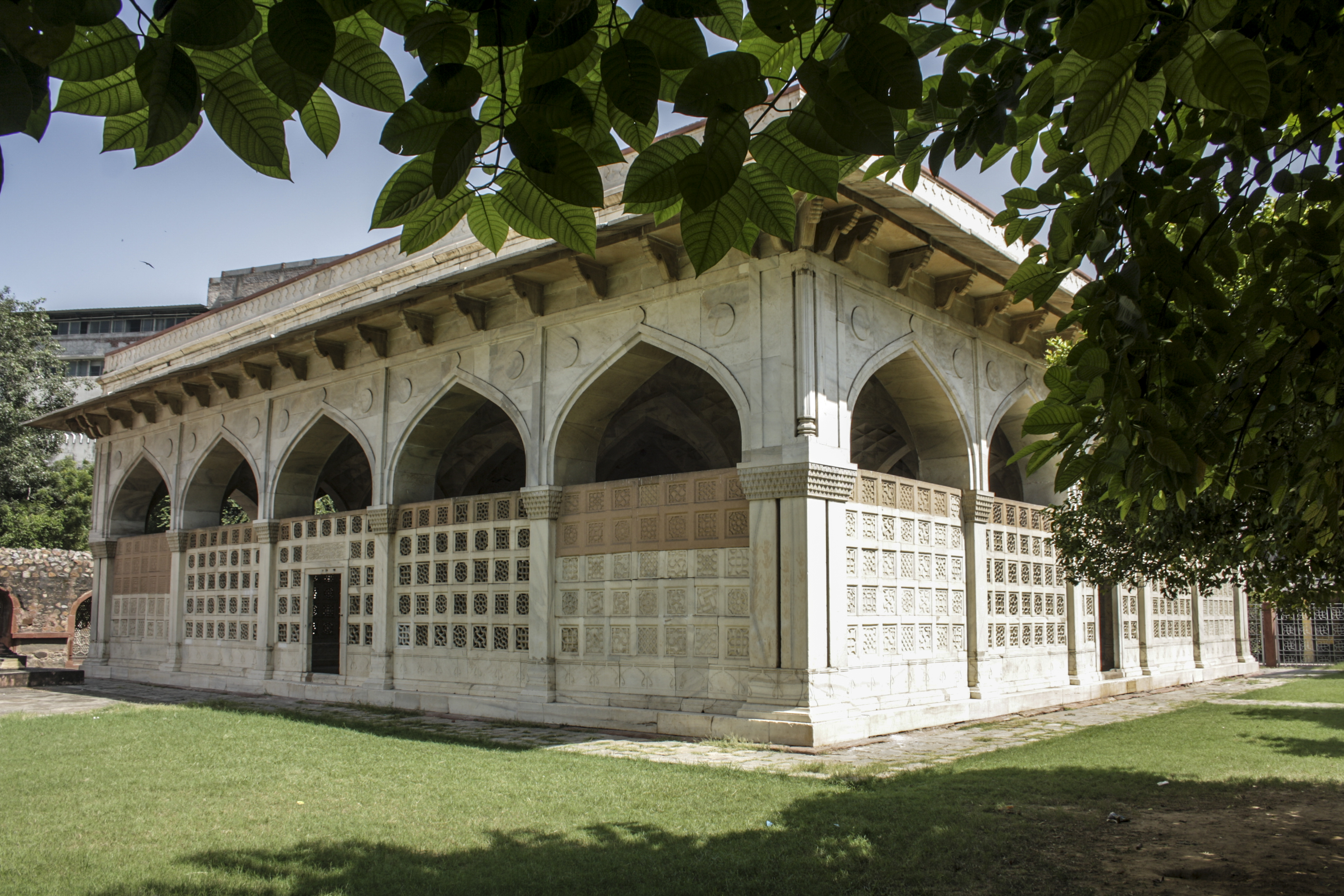 Chaunsath Khamba is located in Nizamuddin area of Delhi, India. This is a marble pavilion with sixty-four pillars and contains several graves including Mirza Aziz Kokaltash, Ataga Khan’s son. It was built as a hall and later converted into a tomb. The main grave is inscribed and bears the date 1033 a.h.(1623-24).